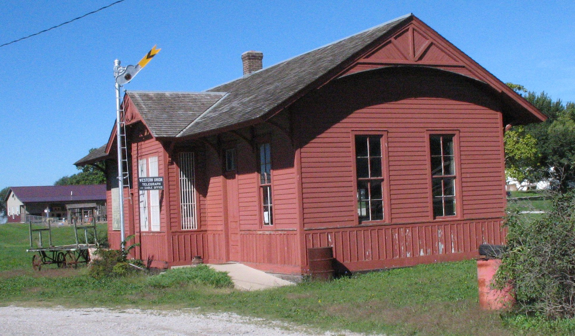 Rock Island Railroad depot at Winston. The depot was allegedly robbed by the James-Younger Gang in which one person was killed. Frank James was tried for the robbery but was acquitted by a jury. Photo by poster in September 2007.